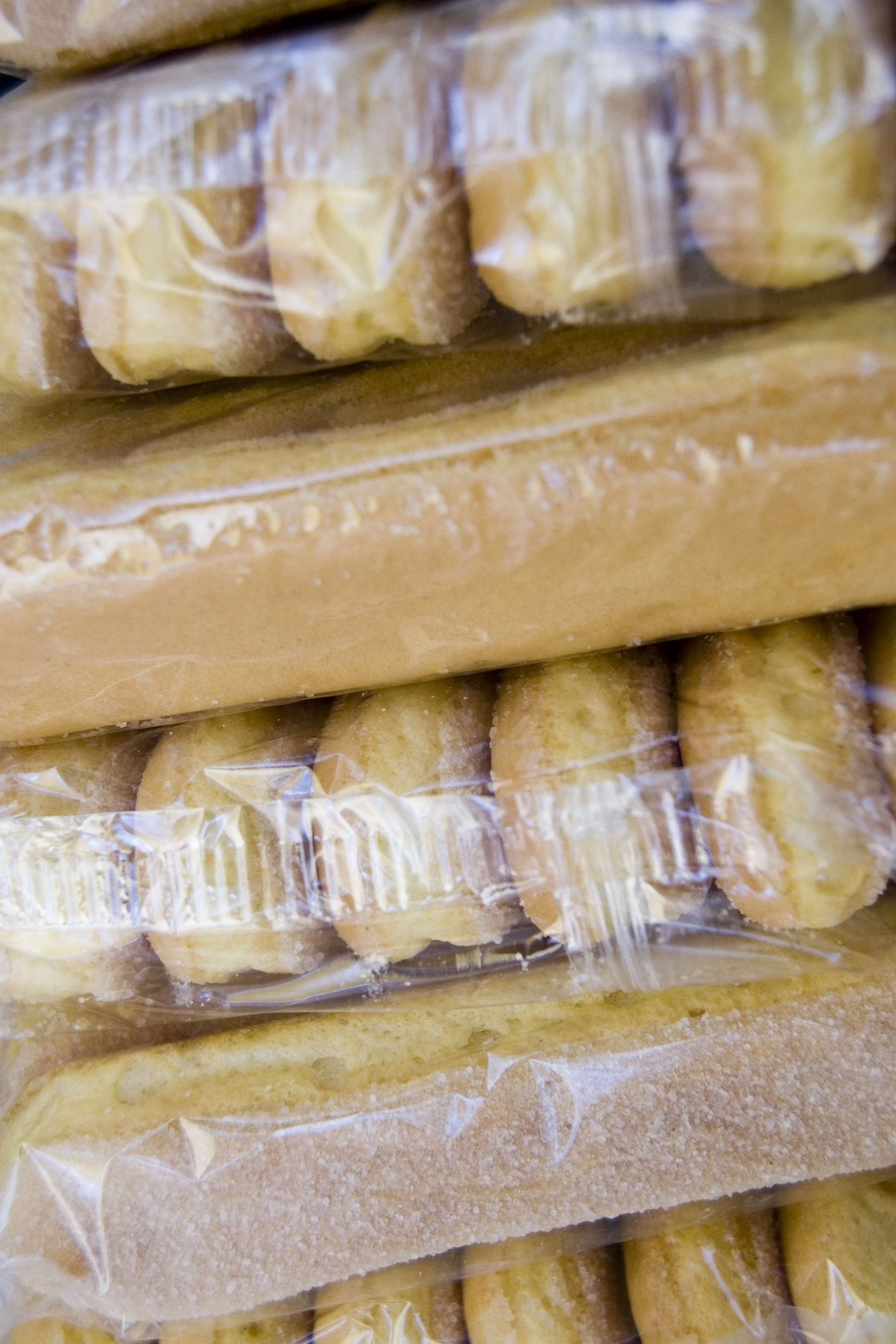 Packages of lady finger cookies (savoiardi).